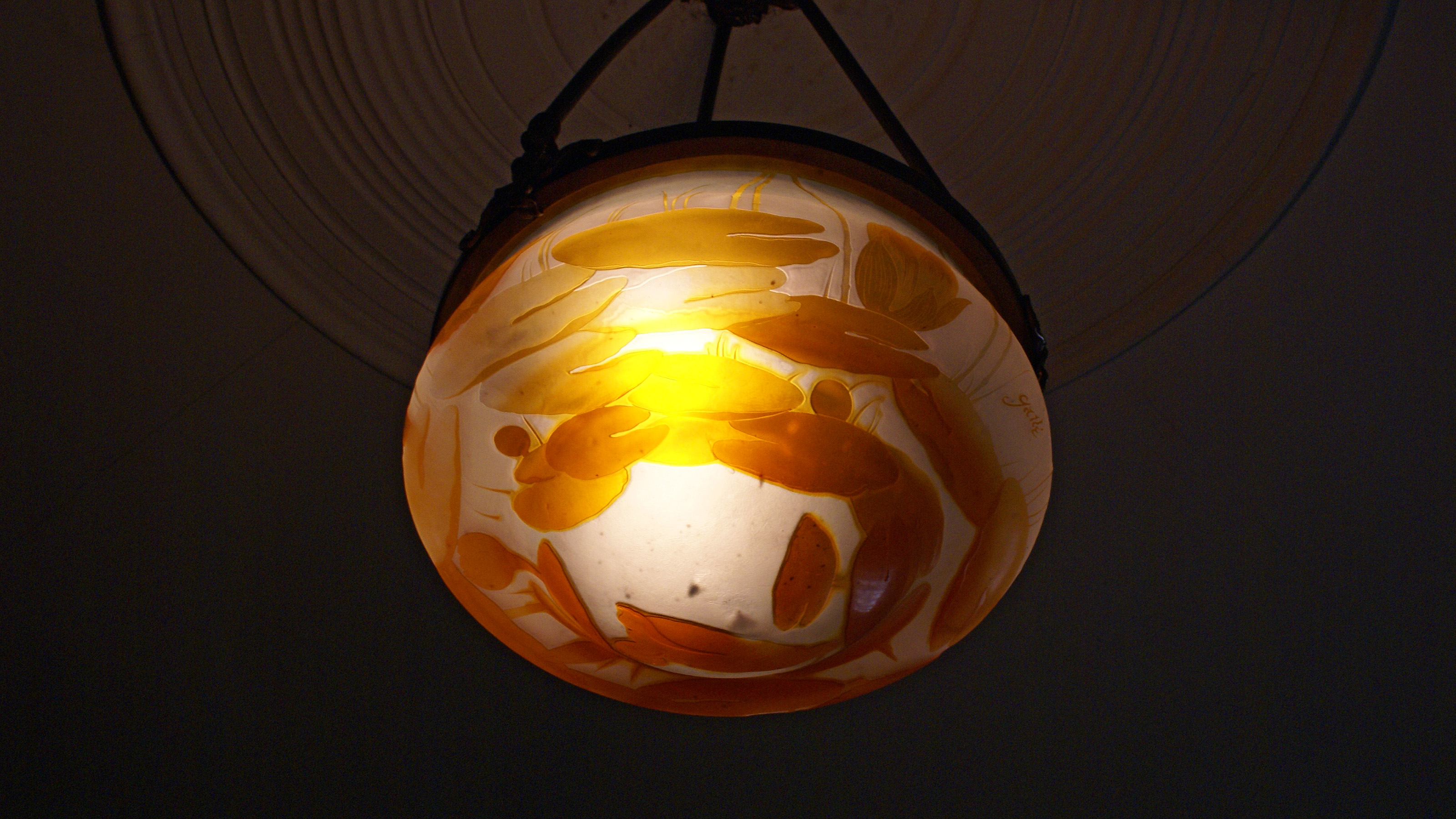 Uroko House and Uroko Museum of Art in Kobe, Hyogo, Japan